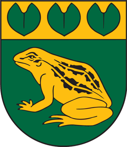 Coat of arms of the city of Baloži, Latvia.